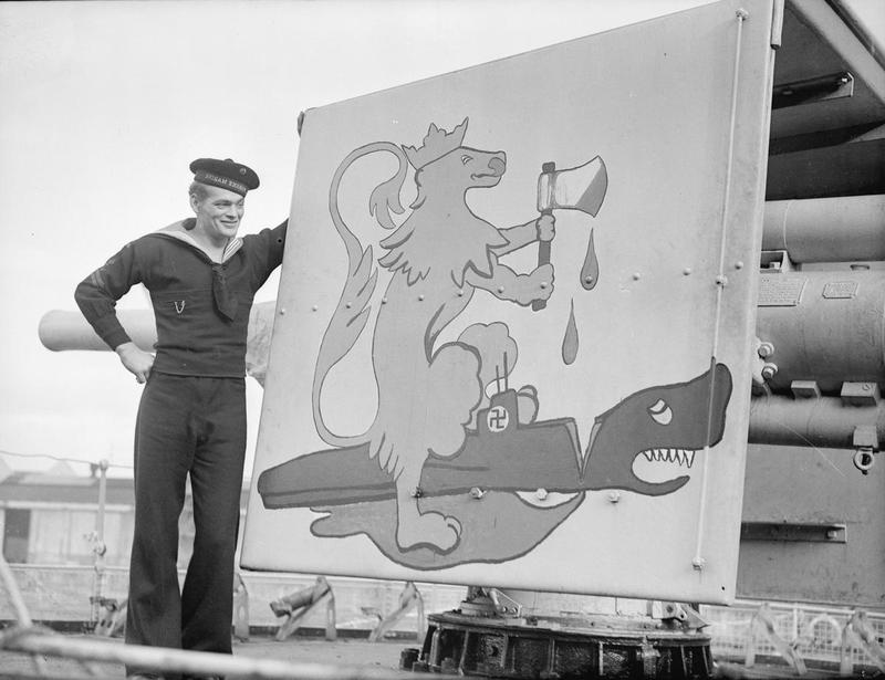 Hnms Potentilla, a Norwegian Corvette Escorting Convoys Across the Atlantic Has An Emblem Painted on the Gunshield Showing the Norwegian Lion Destroying a U-boat. Liverpool, 28 October 1942.